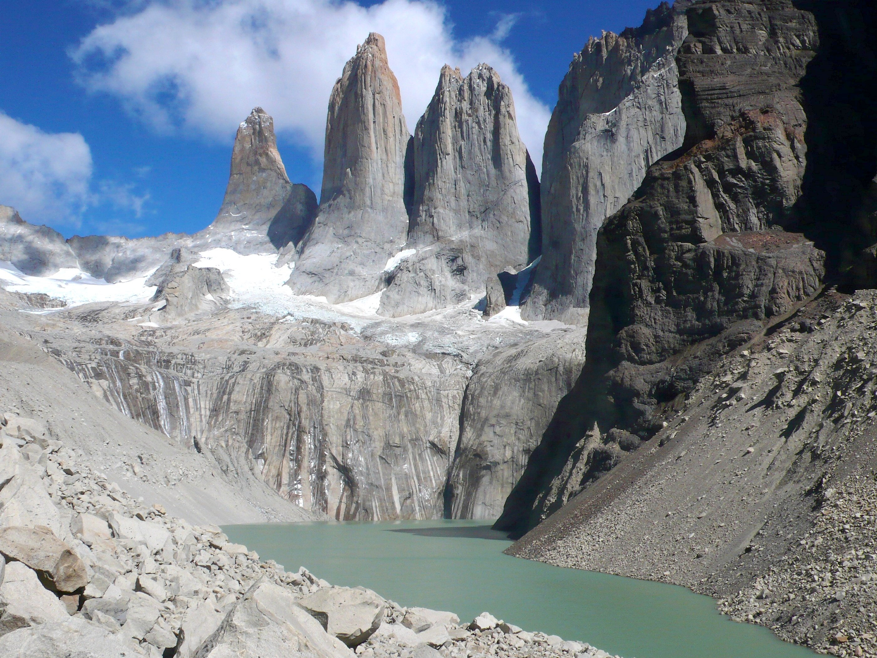 The Torres (towers) from which the Parque Nacional takes its name.